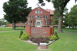 Science Hall - Administration Bldg